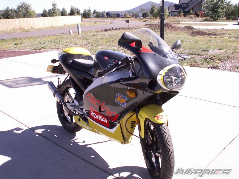 Tyler Matthews bike, Flagstaff, AZ